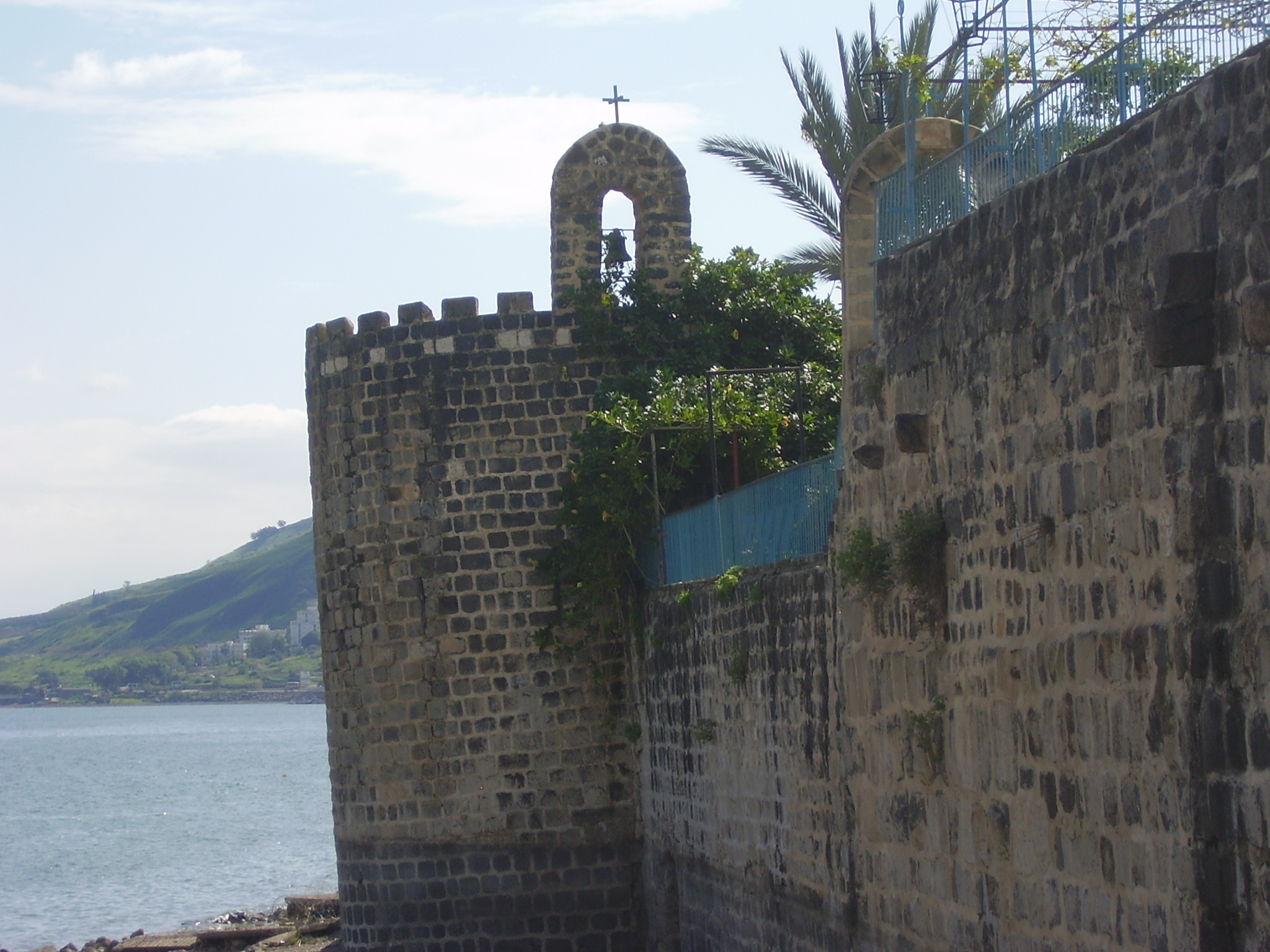 leaning tower in tiberias